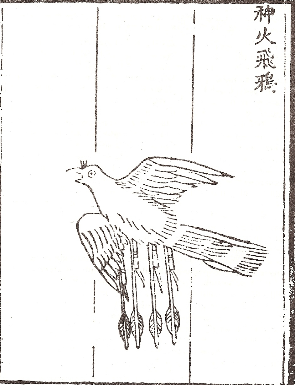 The 'Flying Crow with Magic Fire', an aerodynamic winged rocket bomb from the Chinese military compendium of the Fire Drake Manual, or Huolongjing, written in the mid 14th century with a preface added in 1412. Joseph Needham writes: "The idea was doubtless derived from the use of expendable birds carrying glowing tinder wherewith to set on fire the roofs of the enemy city. But the provisions of wings or fins for increasing aerodynamic stability long preceded anything of the same kind elsewhere in the world. And the provision of an explosive payload was also a new development." (Caption from page 501, figure 208).